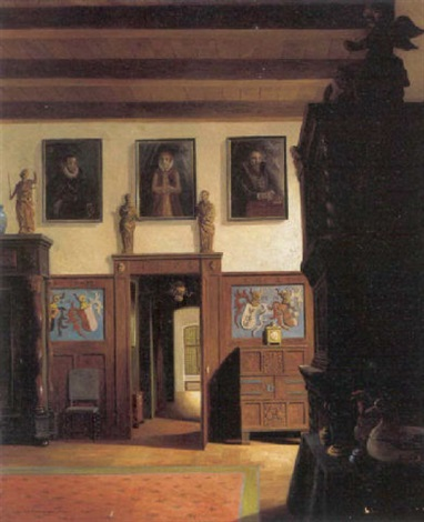 Interior fra Gisselfeld, 1918